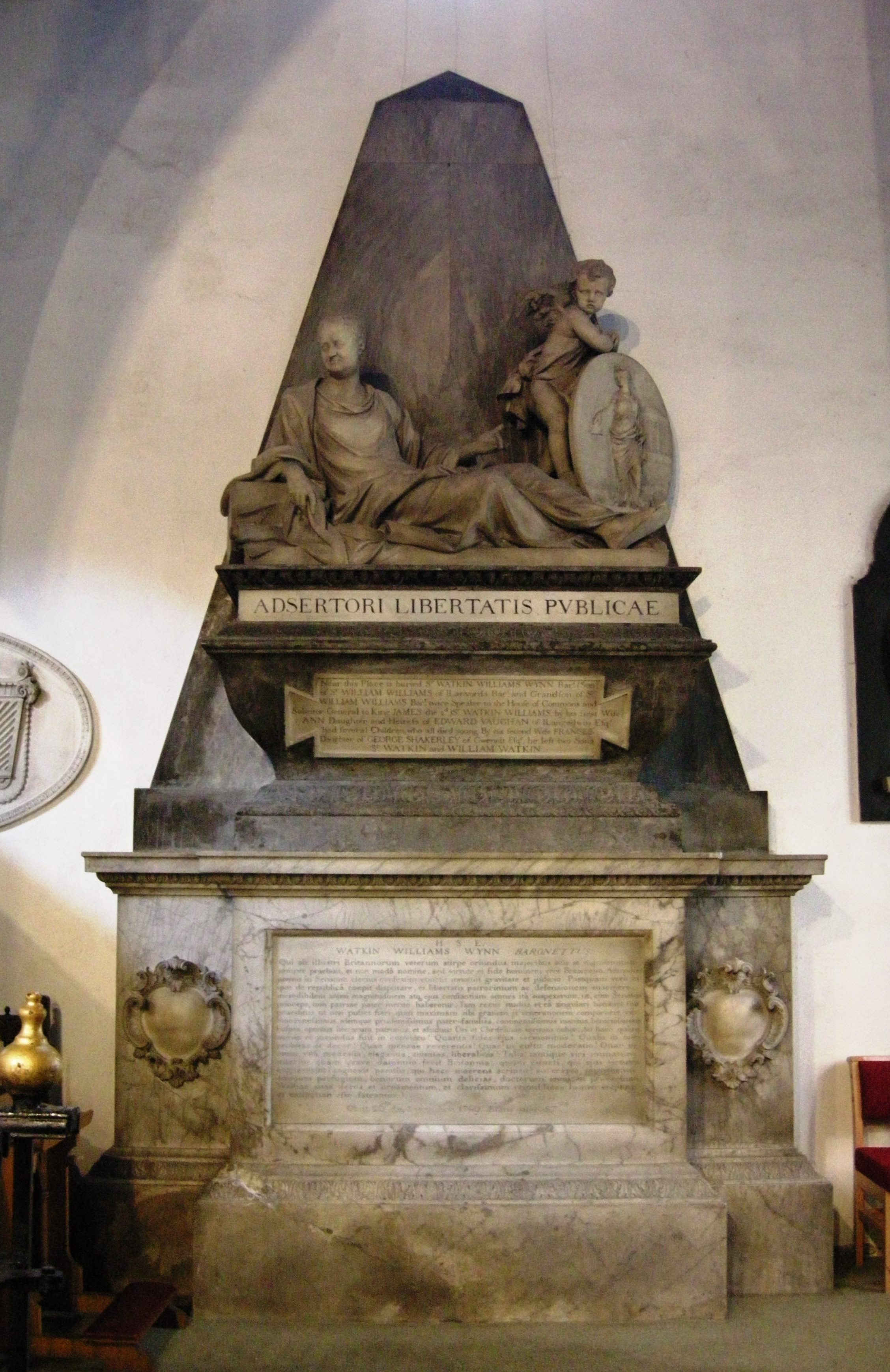 Monument to Sir Watkin Williams Wynn (1692–1749), 3rd Bart, in Ruabon parish church, Denbighshire, designed by Michael Rysbrack, and erected in 1755.